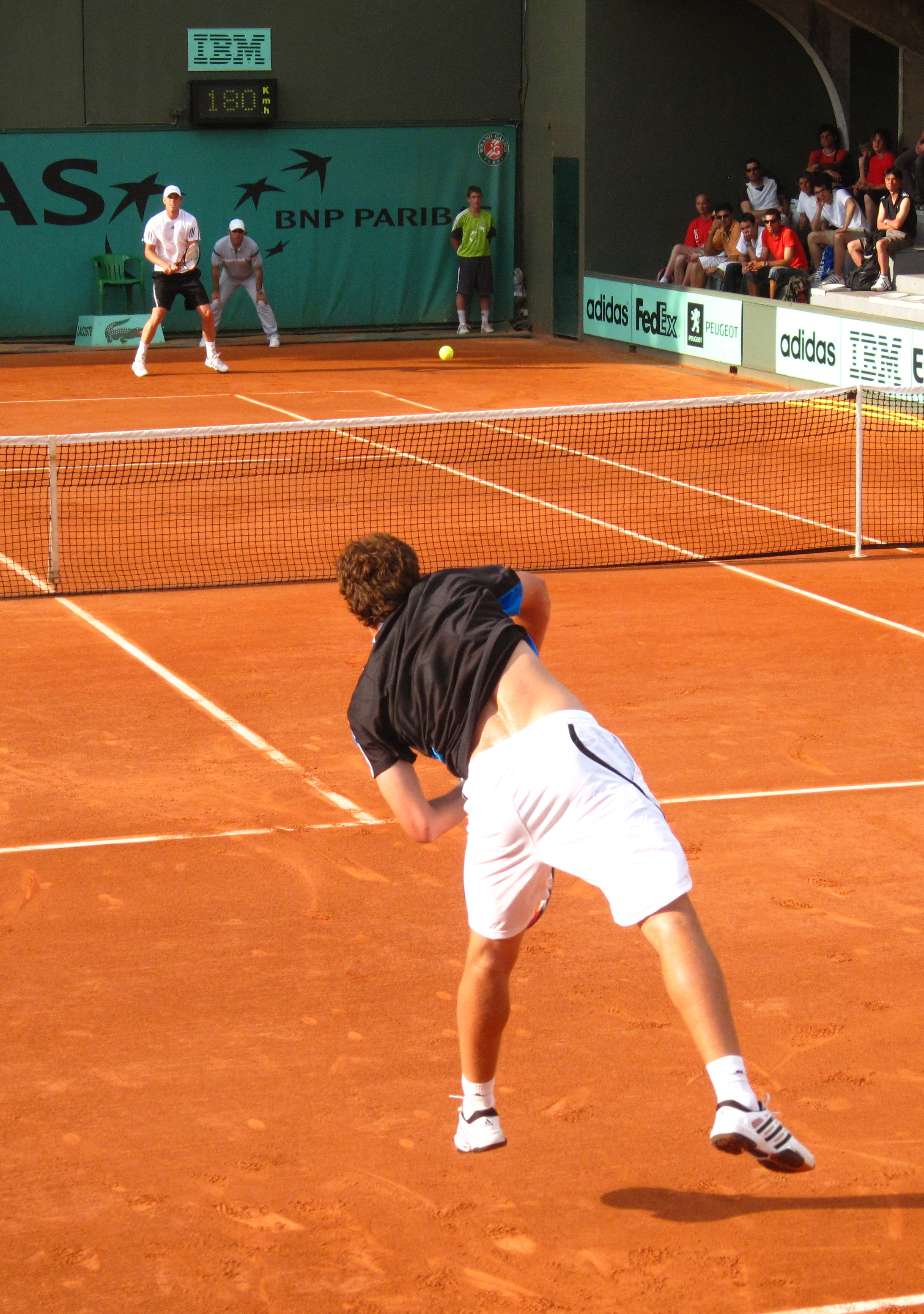 Ernests Gulbis (foreground) and Sam Querrey (background) at 2009 Roland Garros, Paris, France